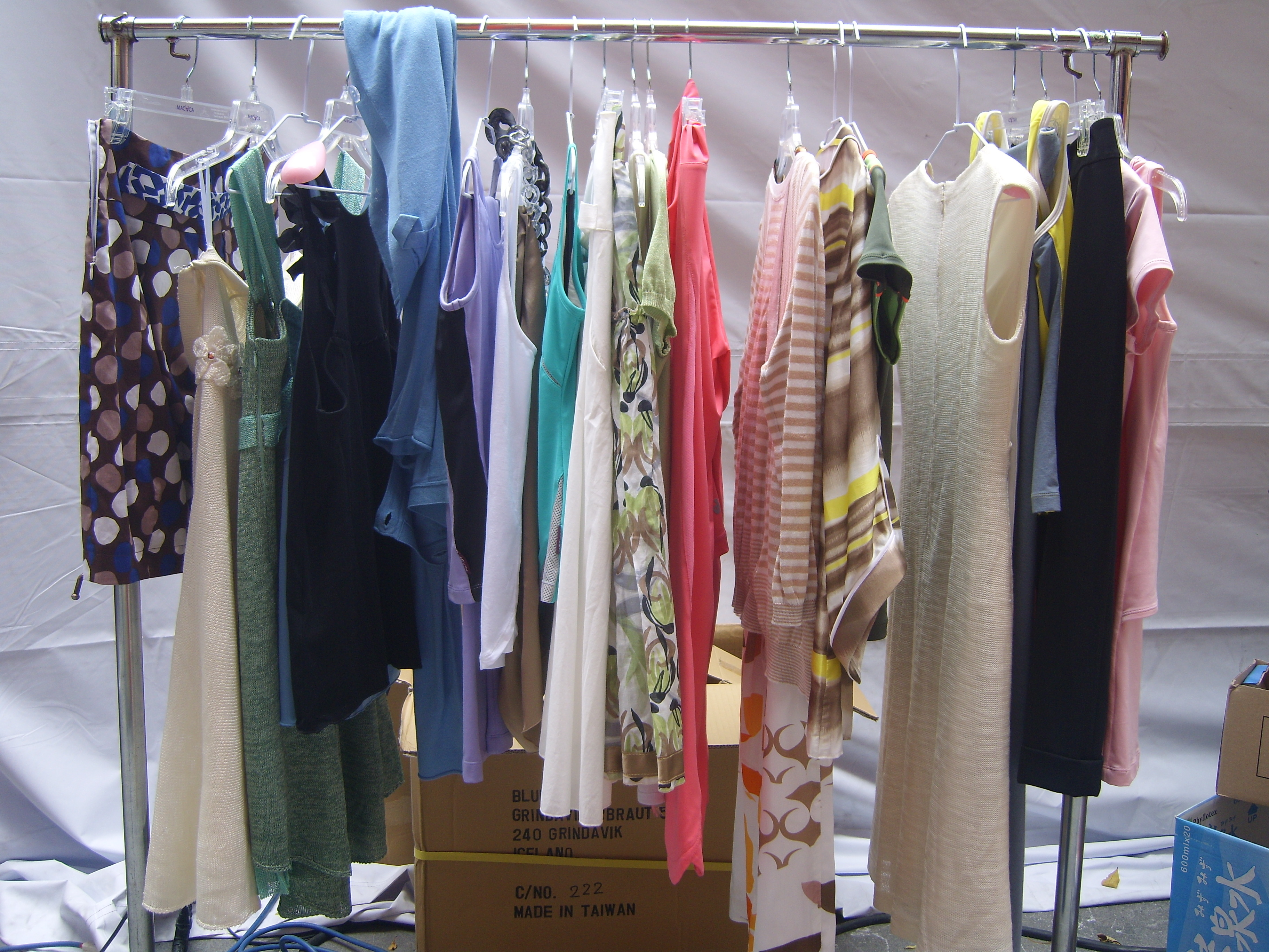 2008 Taipei In Style - Outdoor Fashion Show: A clothing rack with clothes.